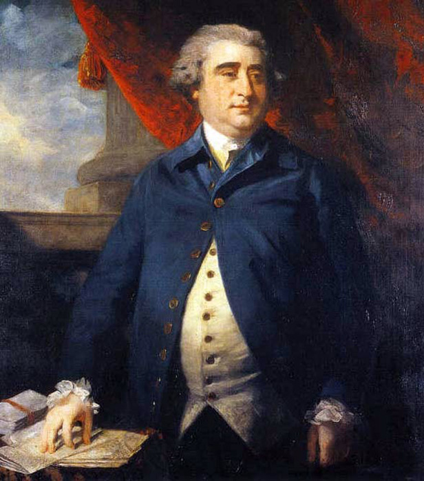 Portrait of Charles James Fox (1749-1806)